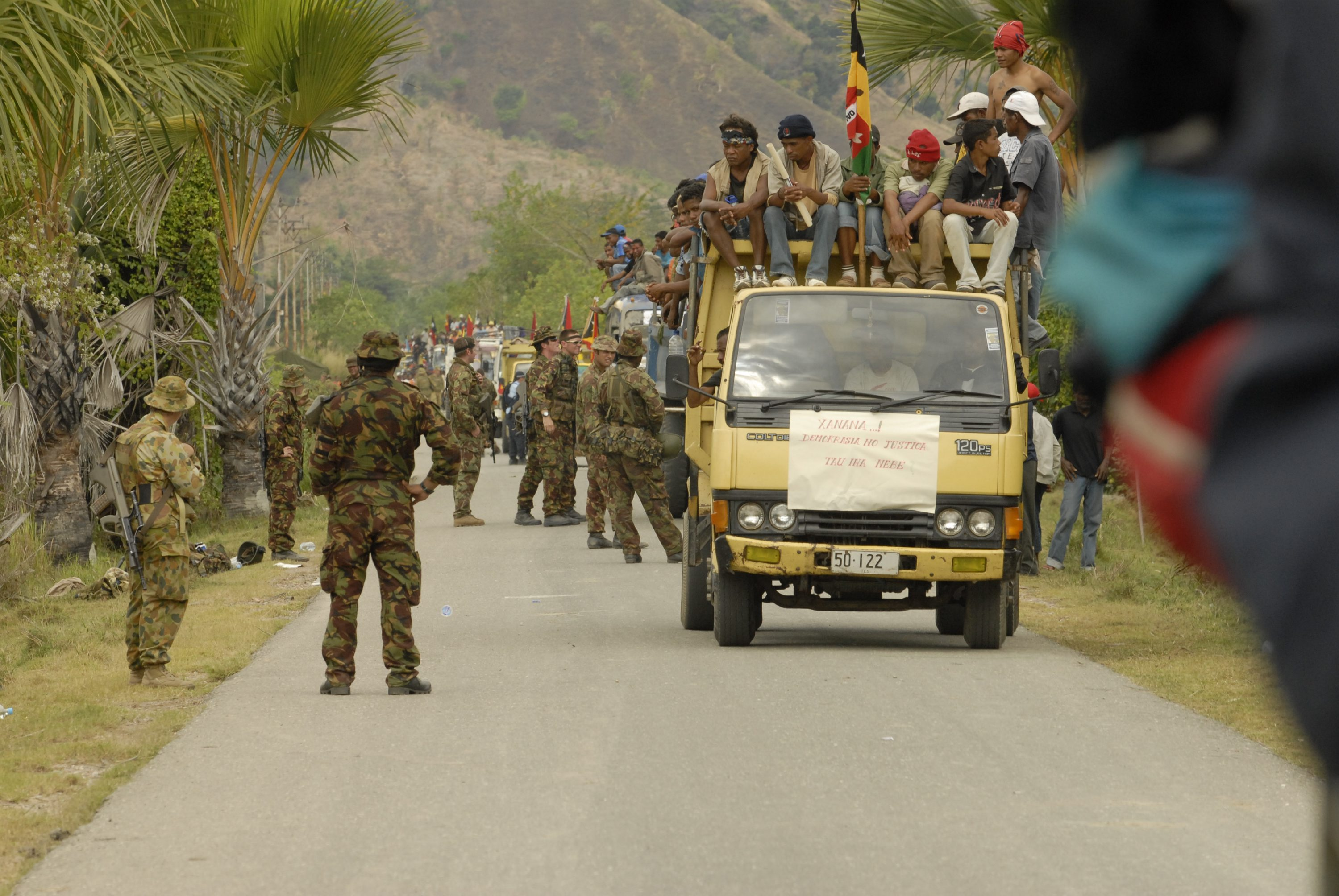 21 Timor - ISF: Joint Australian-New Zealand vehicle check point 'Australian and New Zealand soldiers conduct a Vehicle Check Point (VCP) near Hera, a few kilometres east of Dili. The VCP was setup to search an estimated 3000 protesters from the countries east before they entered Dili' Photo by: SGT John Carroll. 29 June 06)